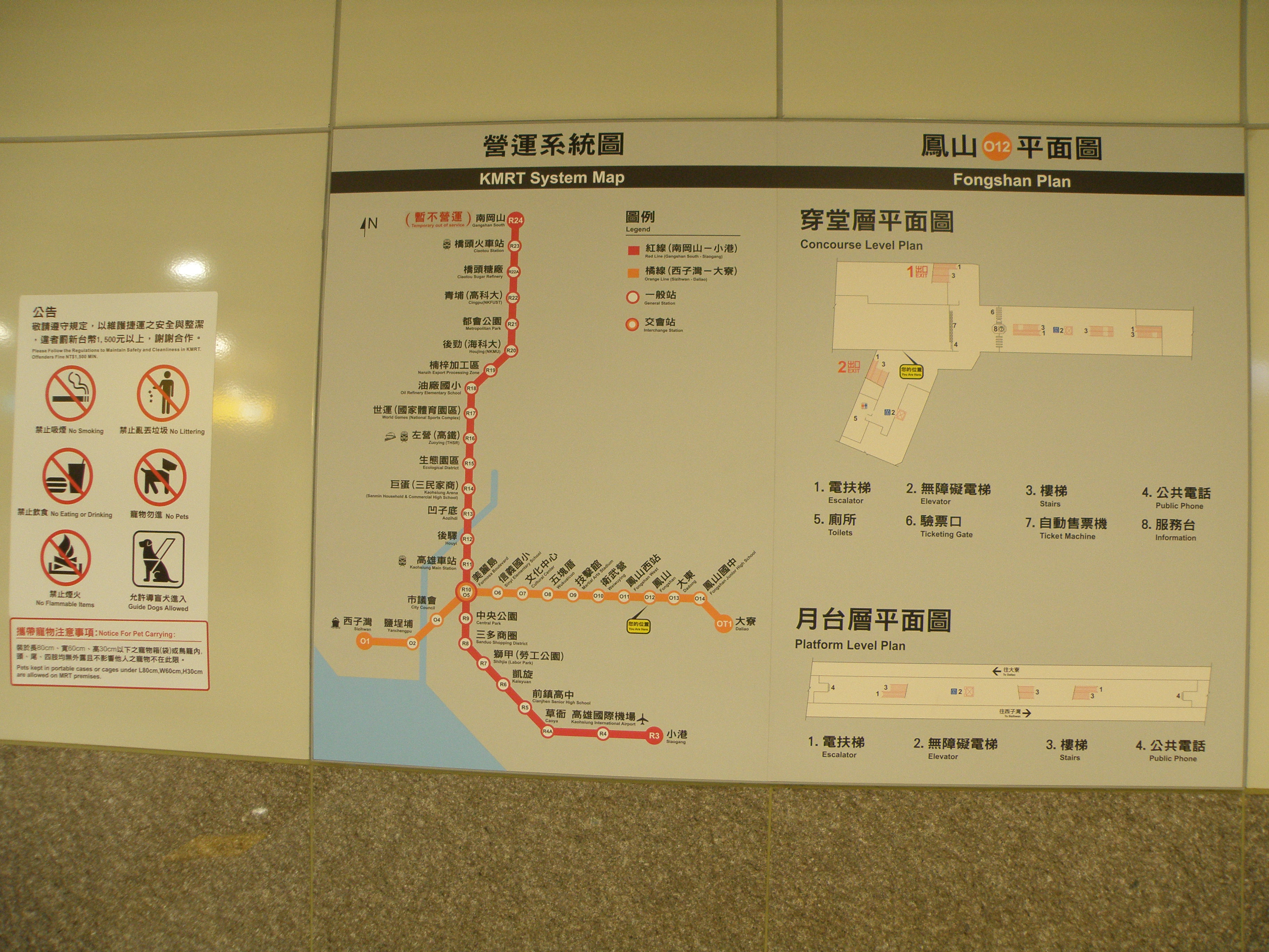 Plan of Fongshan Station, Kaohsiung Mass Rapid Transit.